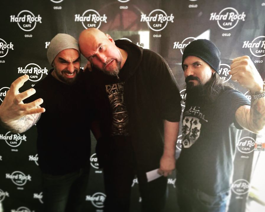 Rage 2017